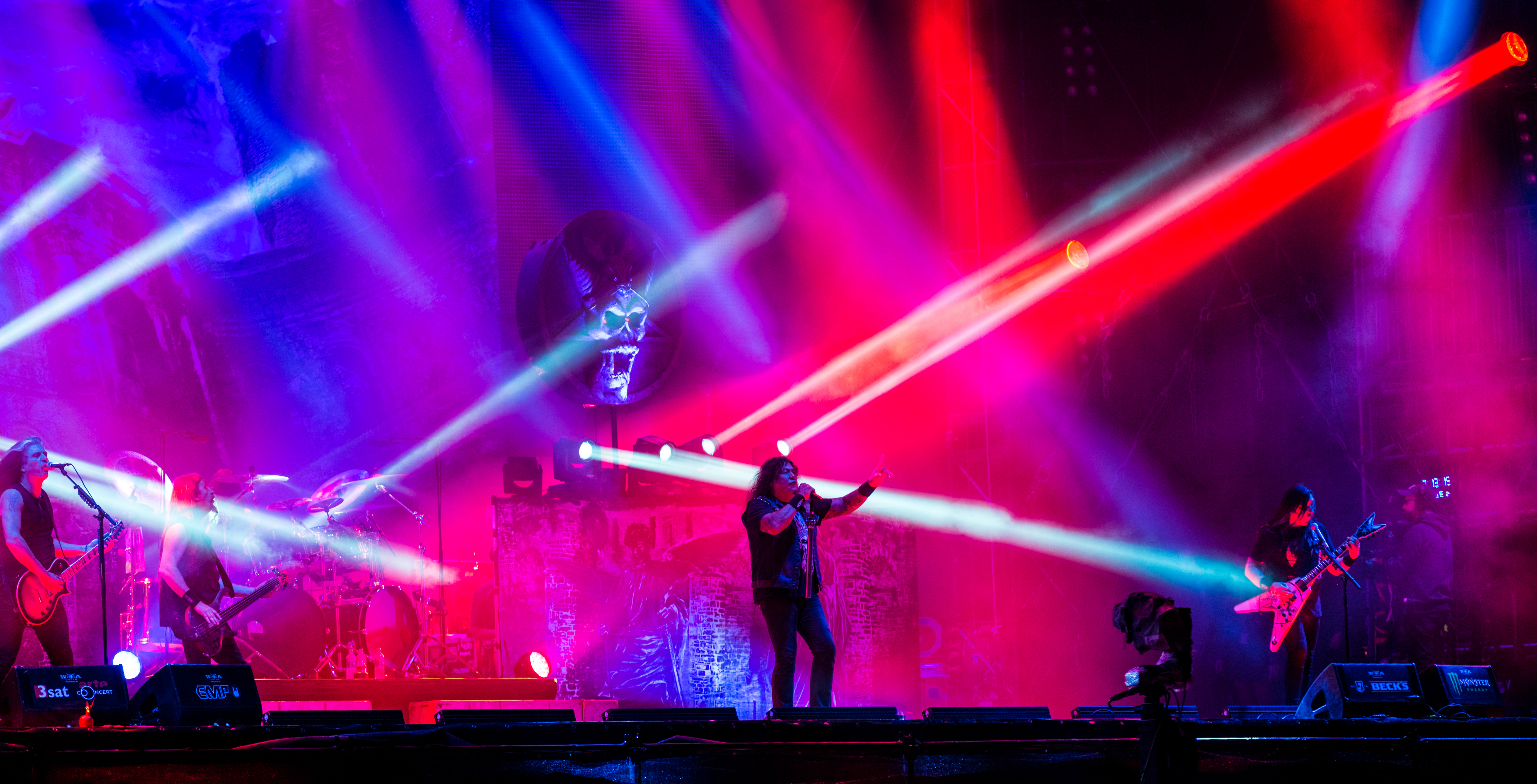 Testament - Wacken Open Air 2016